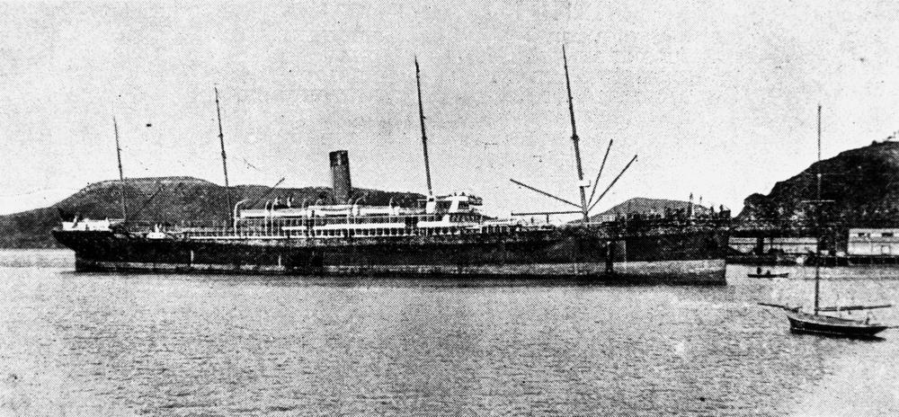 Gothic (ship) Built 1893. 7,755 tons. Broken up 1926. (Description supplied with photograph).